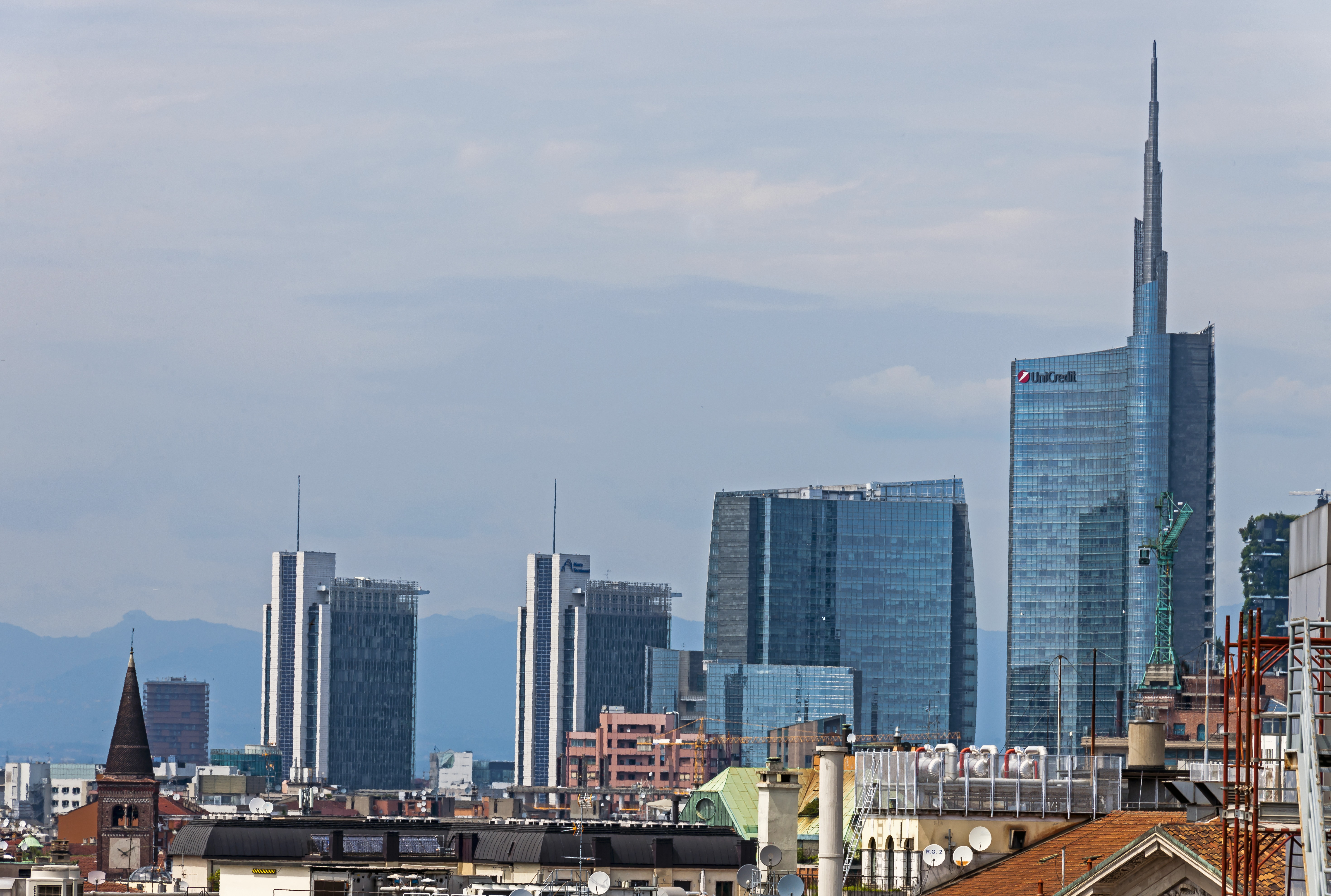 The Milan skyline around the Unicredit Tower seen from the roof of the Duomo